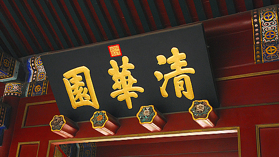 The Board of Tsinghua Yuan at the Tsinghua University in Beijing, written by Xianfeng Emperor.